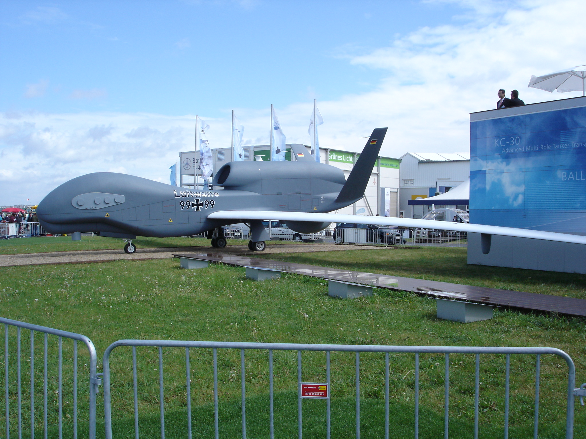 Picture of Euro Hawk; European Version of US Global Hawk UAV